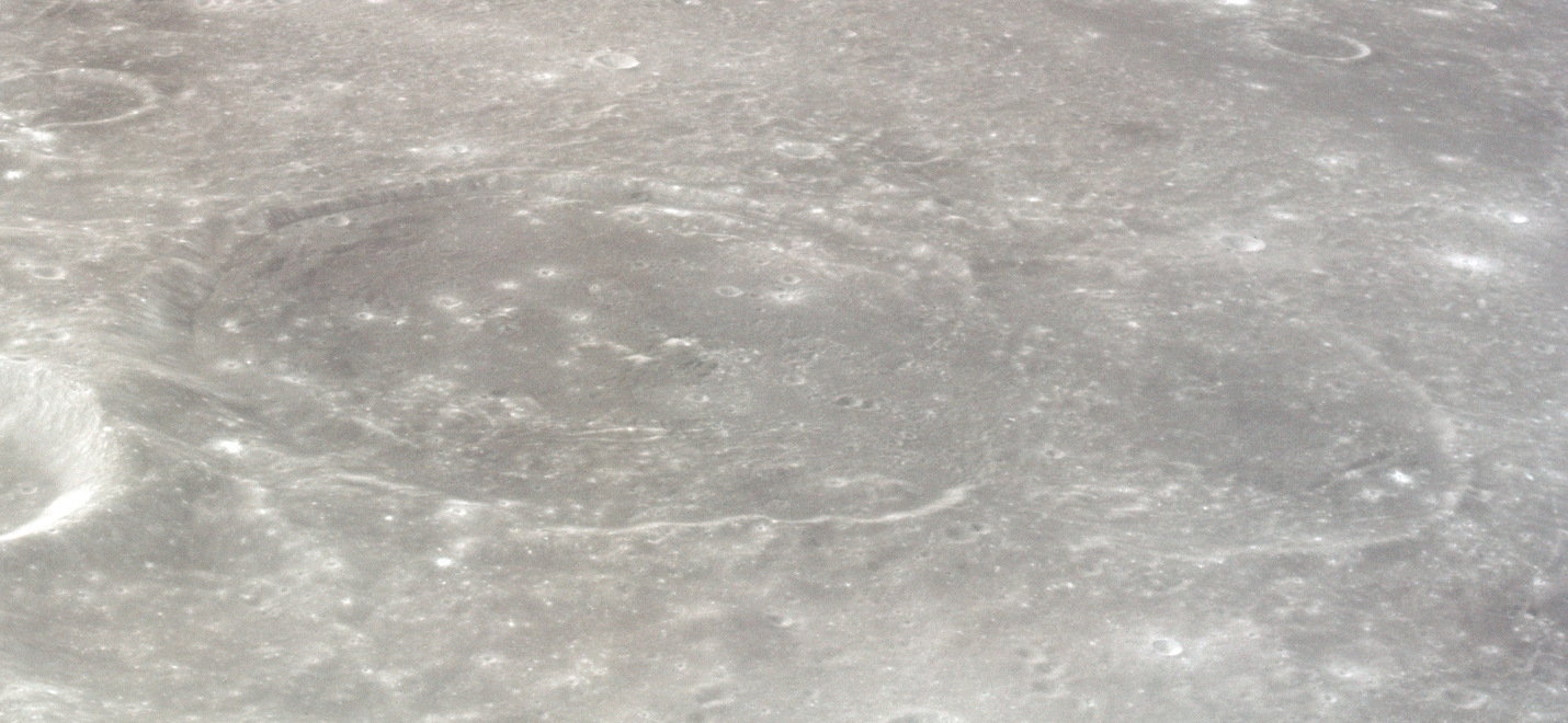 Oblique view of lunar craters Kiess (left) and Widmannstätten (right).